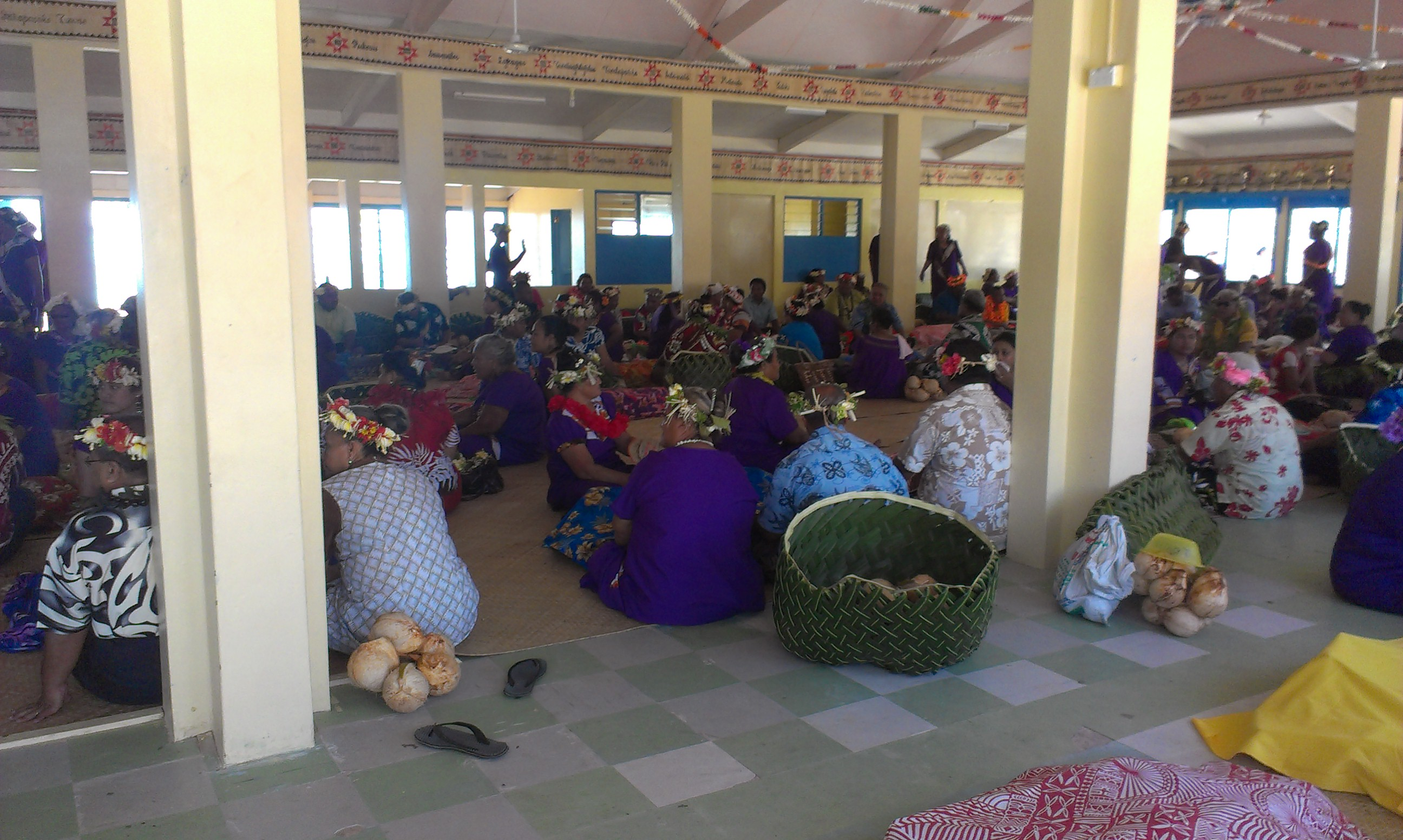 Interior of a maneapa in Funafuti, Tuvalu, during one vaatele.